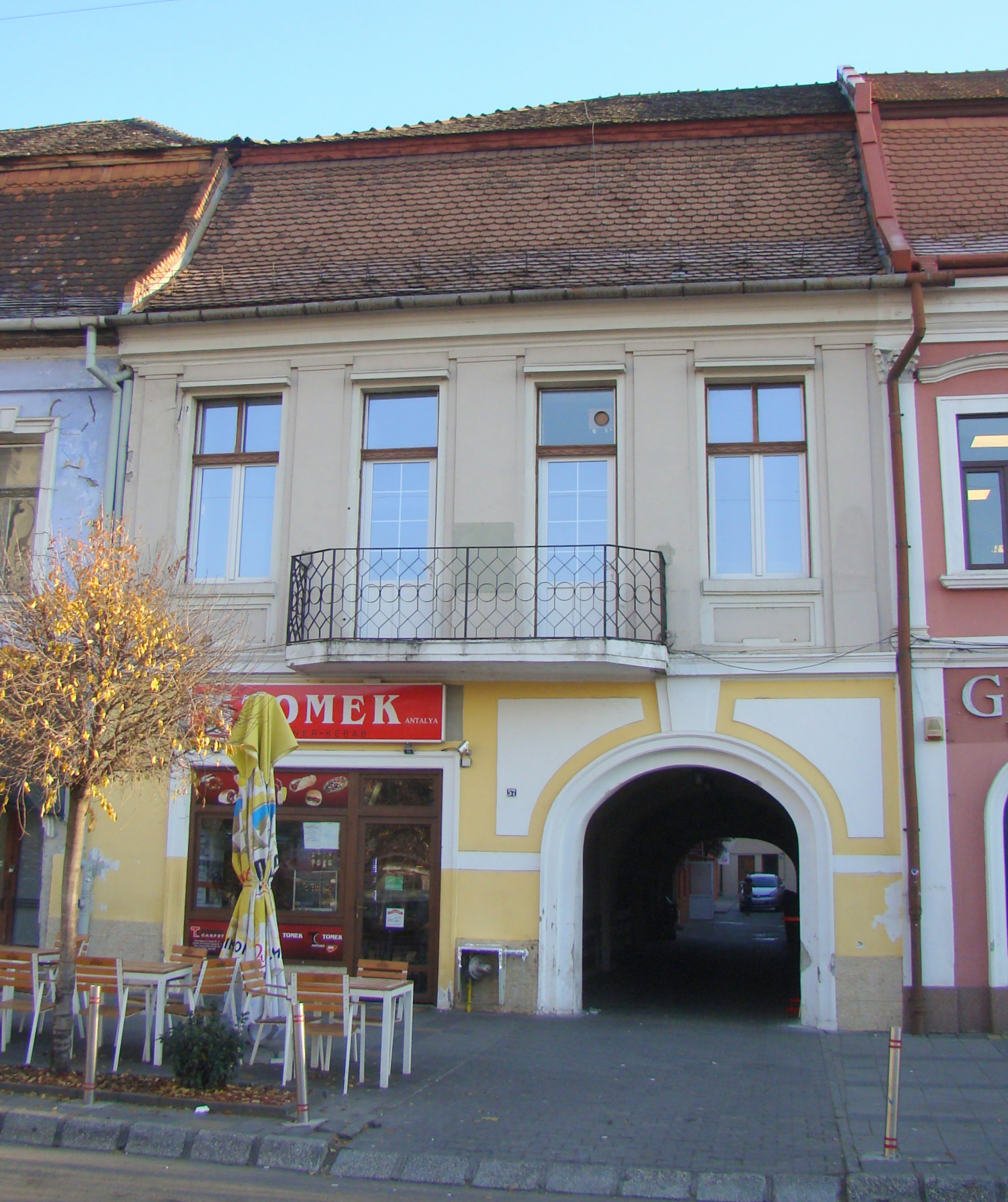 House, historic monument, in Târgu Mureș, Piața Trandafirilor 57